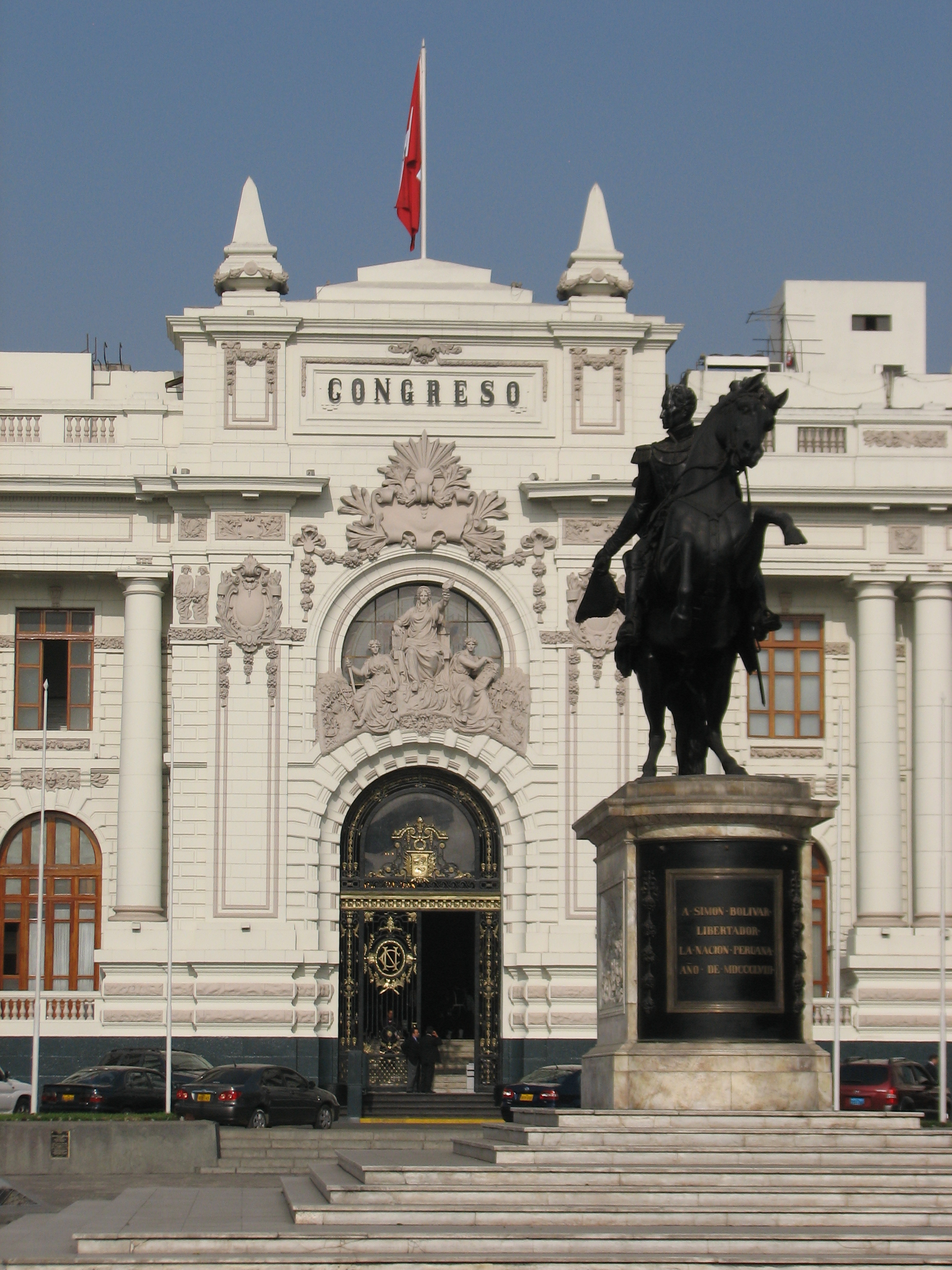 Parliament/Detail of central part of Congreso in Lima, Peru.